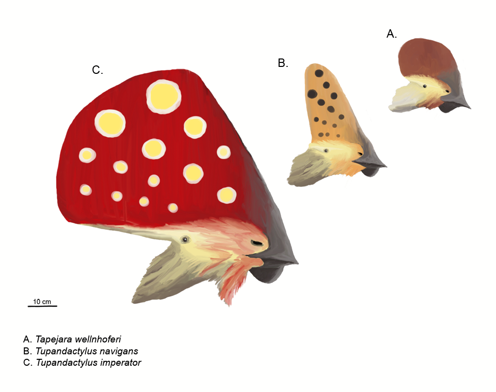 Reconstructed profiles of three tapejarine pterosaurs traditionally referred to the genus Tapejara: Tapejara wellnhoferi, Tupandactylus navigans (=Tapejara navigans, Ingridia navigans), and Tupandactylus imperator (=Tapejara imperator, Ingridia imperator). Drawn to scale. Scale bar = 10 cm.